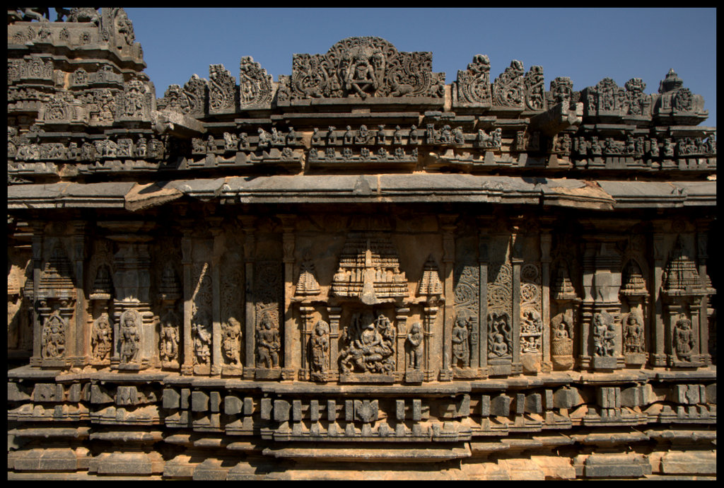 Southern Wall